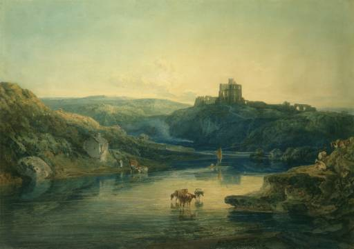 Joseph Mallord William Turner Norham Castle, Sunrise c.1798 © Trustees of the Cecil Higgins Art Gallery, Bedford, England